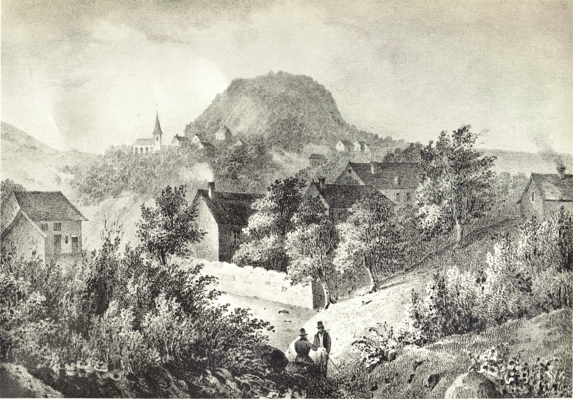 Vue on mount of Soleuvre, Luxembourg. Drawing.